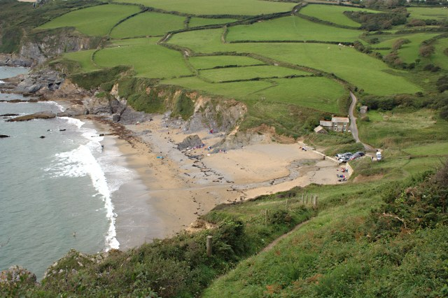 Hemmick Beach Looking down on the beach from the coast path. There is no car parking at this beach but it does not stop a few cars trying to crowd in at the bottom of the hill. The road winds it's way up the hill to Boswinger but for the walker a footpath takes a more direct route across the fields.